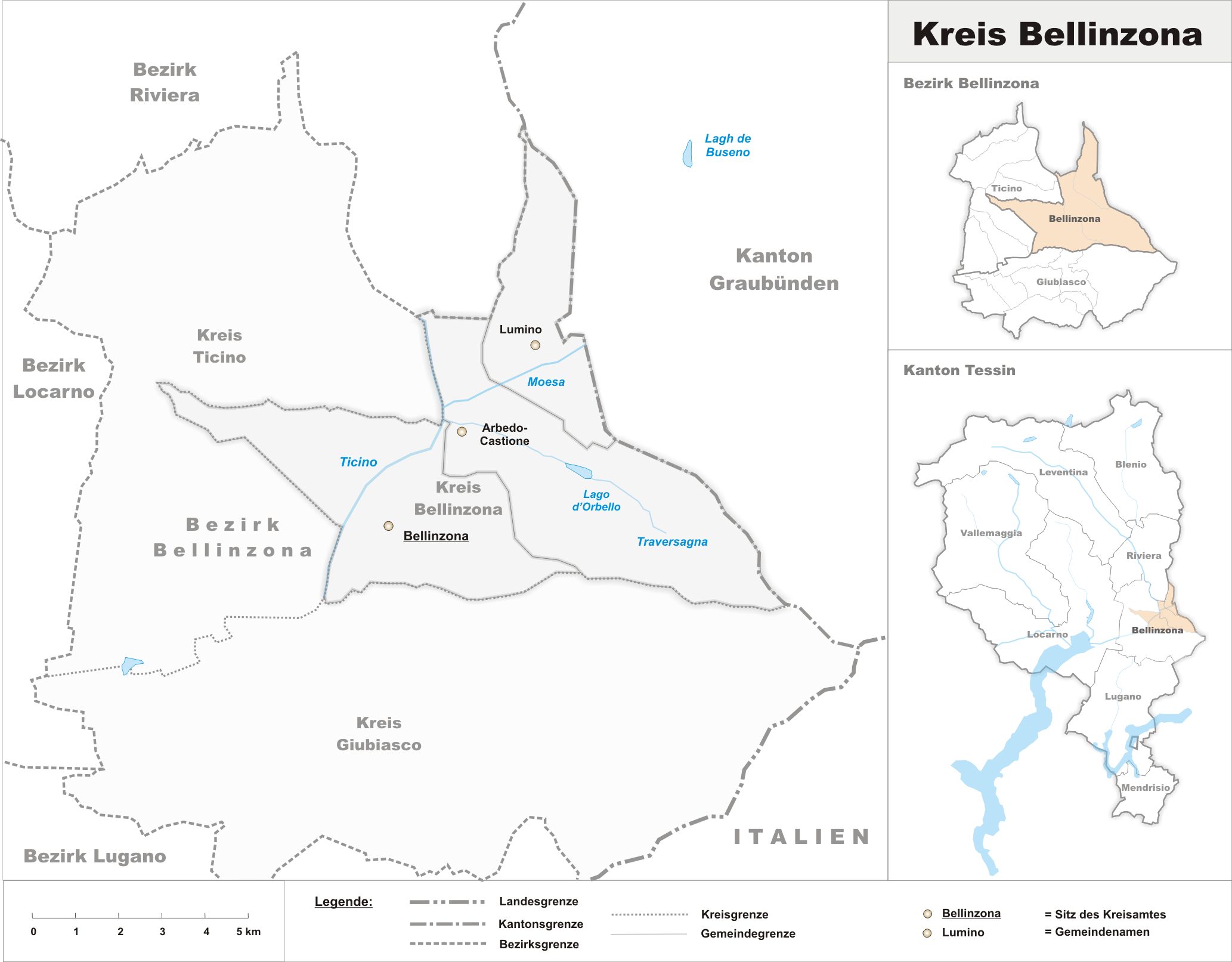 Municipalities in the circle of Bellinzona